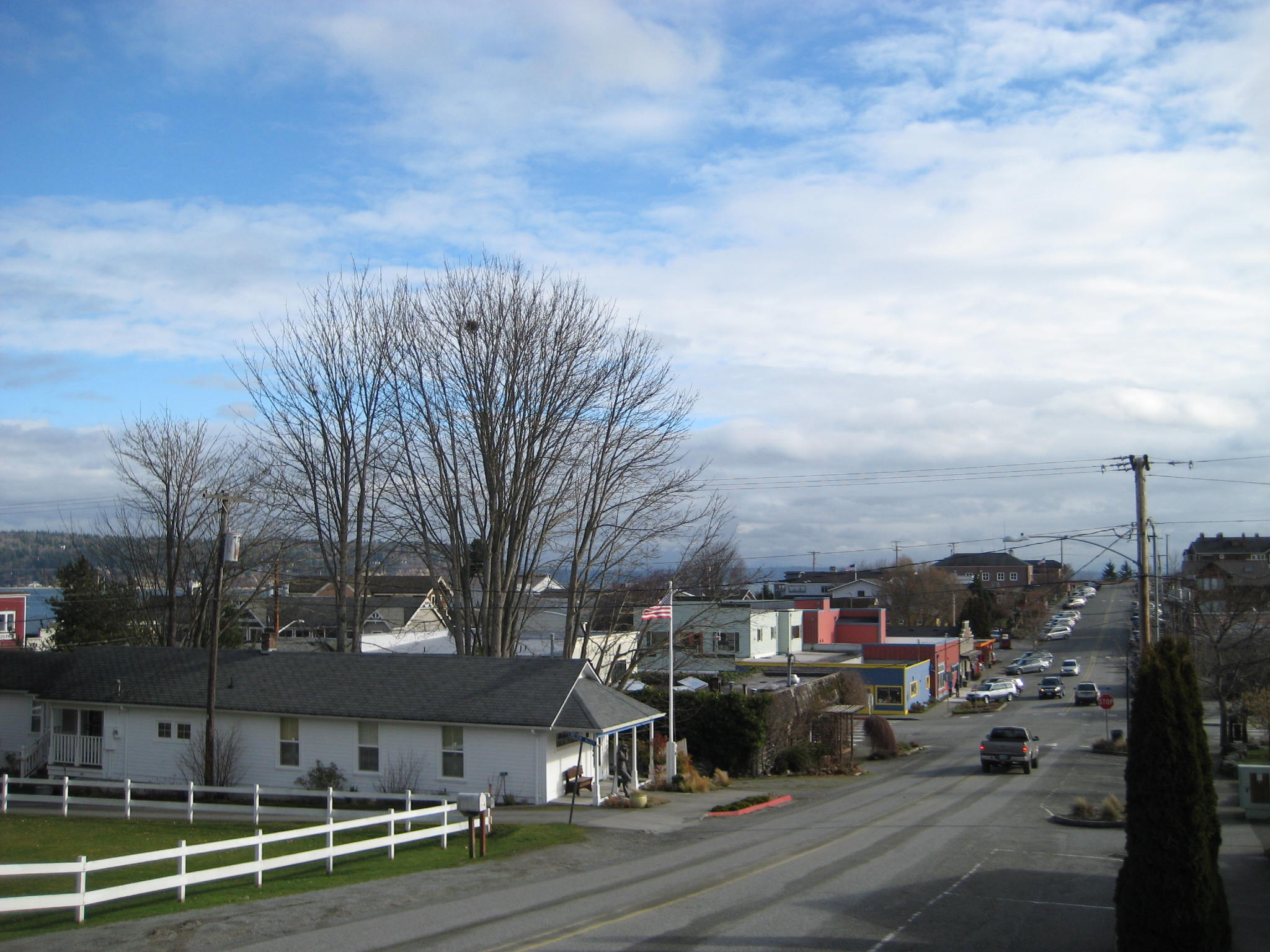 Looking west down Second St. towards downtown Langley, WA. February 2012.